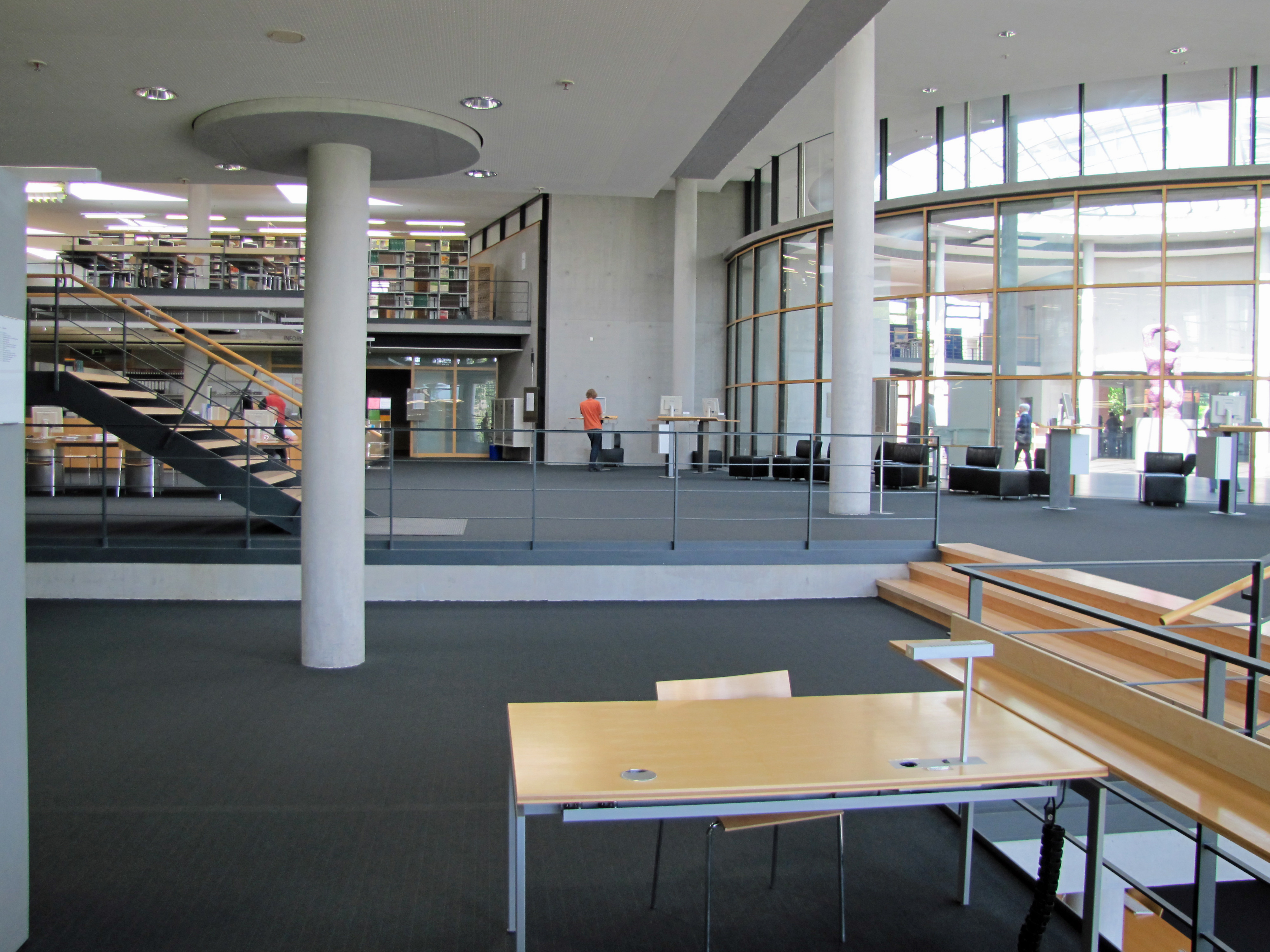 "Deutsche Nationalbibliothek" (German National Library), department Frankfurt am Main, part of freehand stock, view from (main) reading room to northern direction.